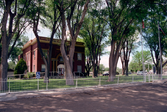 Hartley County Courthouse (Built 1906) Channing, Texas Object location35° 40′ 54″ N, 102° 19′ 57″ W